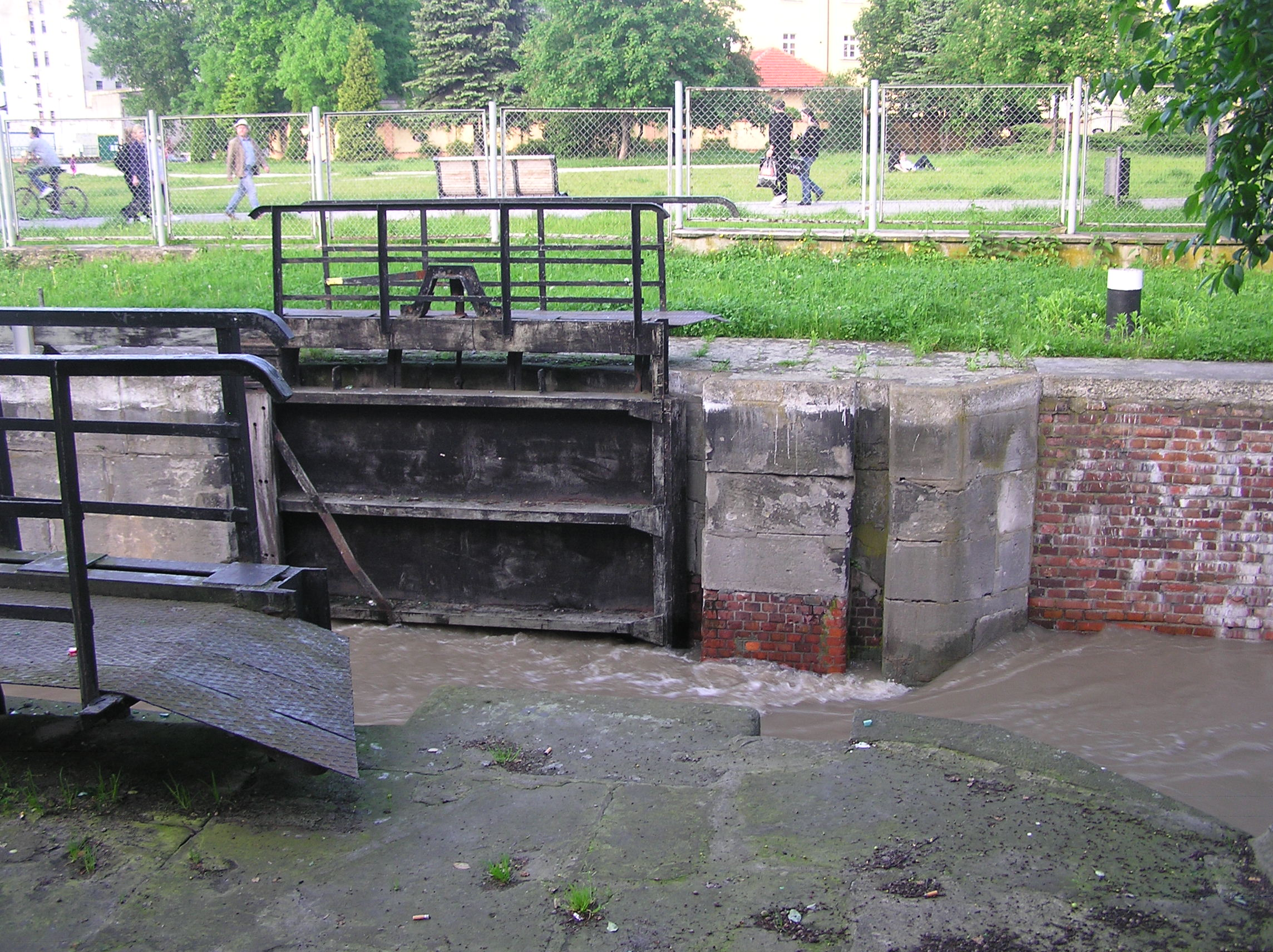 Wrocław, Piaskowa Lock